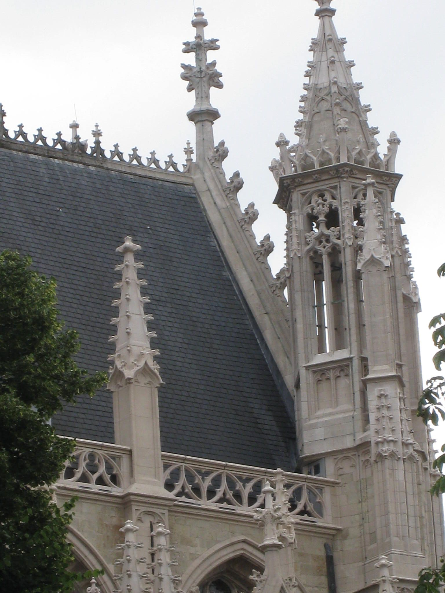 Pinnacle at the Onze-Lieve-Vrouw ter Zavelkerk, Brussels